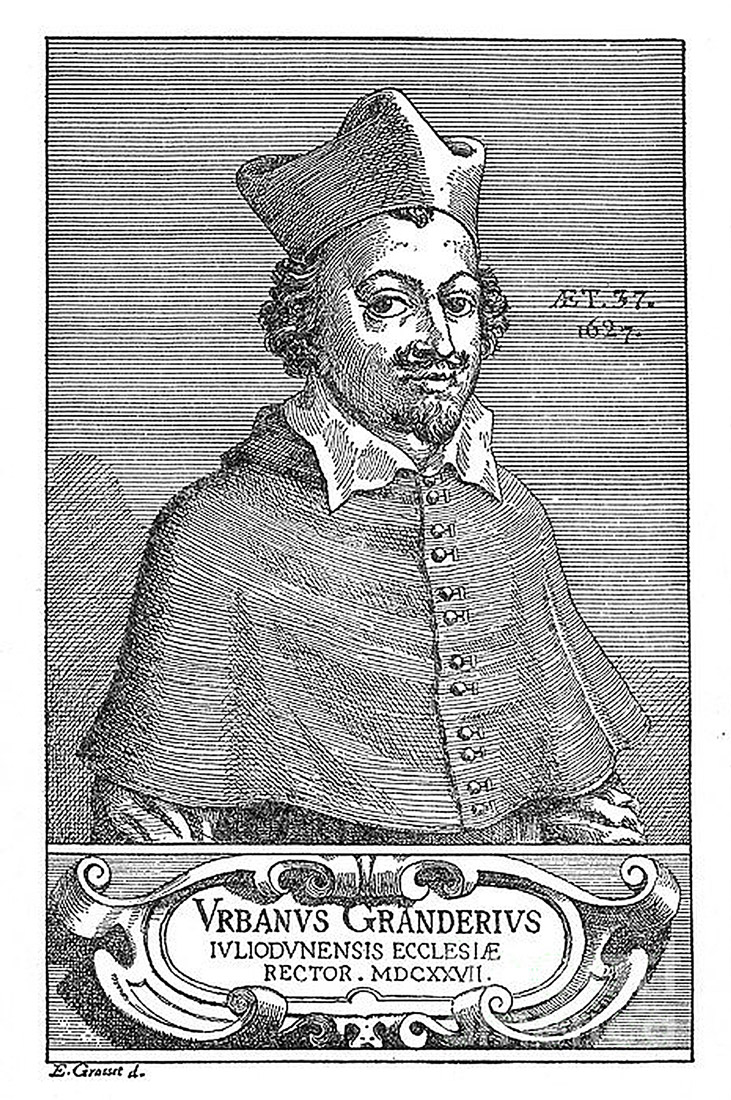 Portrait of Urbain Grandier